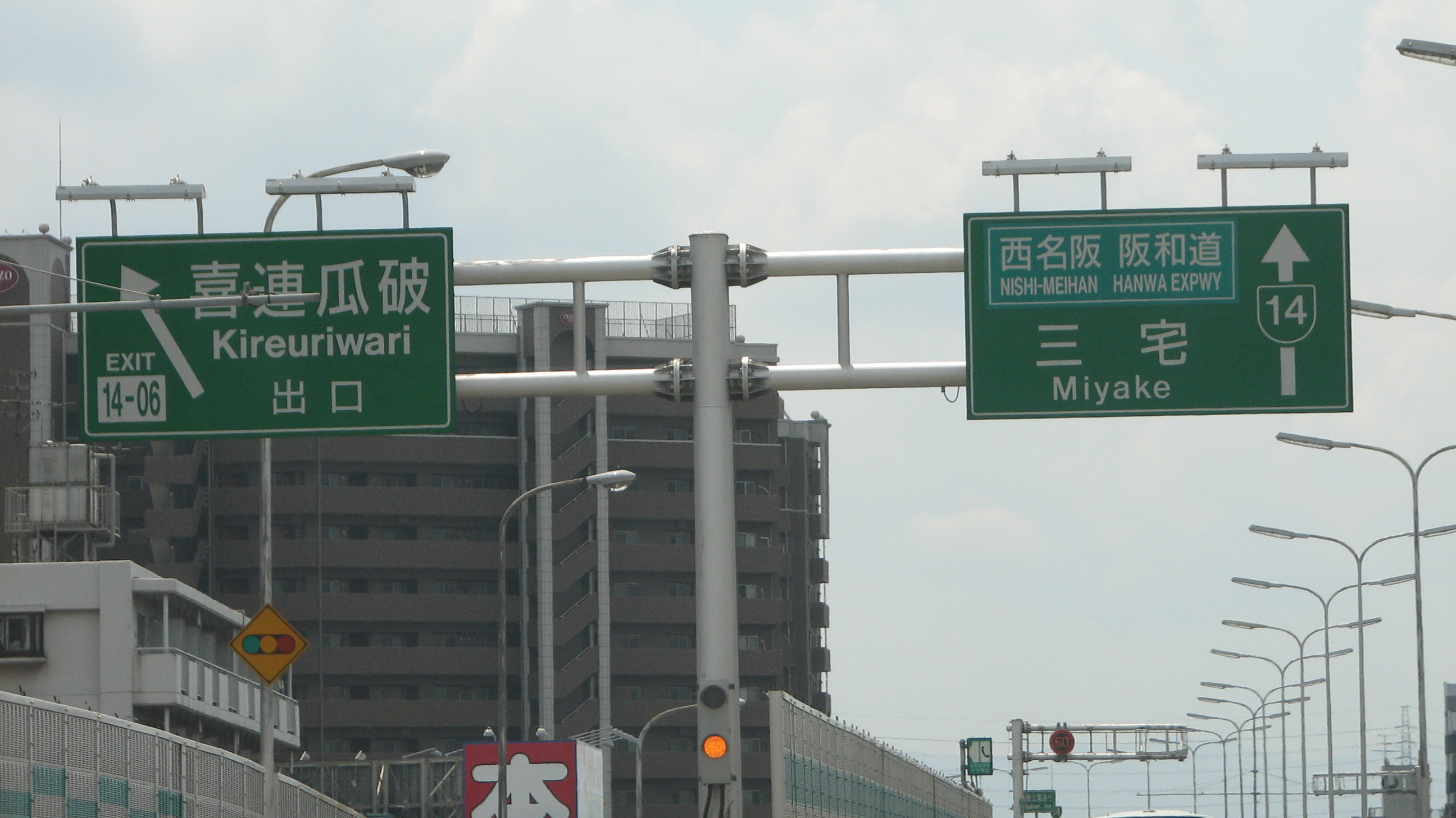 Hanshin Expressway Kireuriwari IC